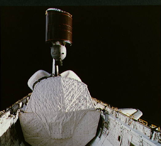 Telesat Canada ANIK C-3 communications satellite rises from its protective cradle (obscured by another such device in the foreground) in the cargo bay of Columbia. Both orbital maneuvering system pods, part of the vertical tail and part of the wing stand out in this photo